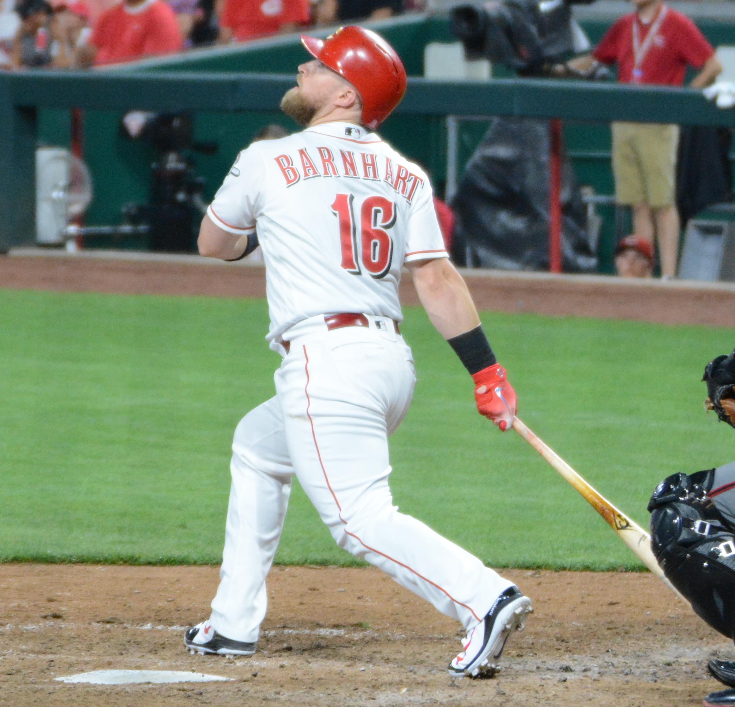 Taken at a baseball game between the Cincinnati Reds and the Arizona Diamondbacks on August 11, 2018 at Great American Ball Park in Cincinnati, Ohio.